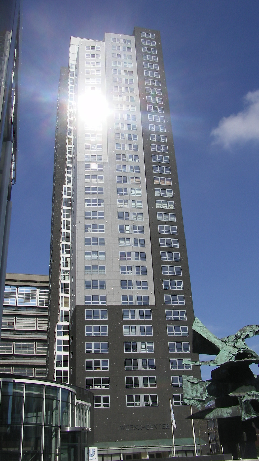 A picture of the Weenacenter in Rotterdam